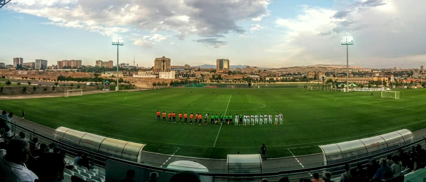 FFA academy stadium Yerevan, 23.08.2015